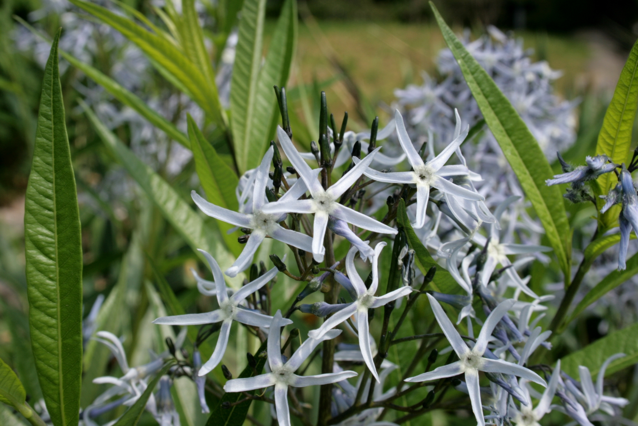 Amsonia tabernaemontana: Flowers